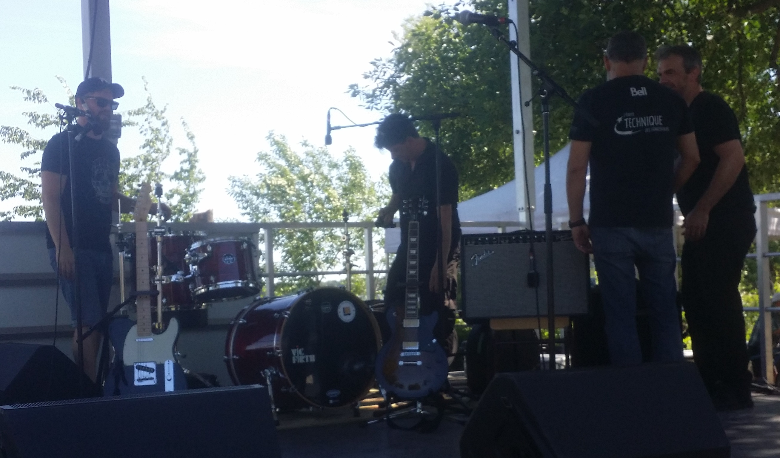 La Jarry photographed in St. Eustache, Québec , Canada.